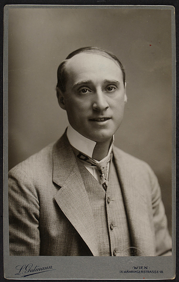 Austrian tenor Louis Treumann in 1908, photographed by Ludwig Gutmann, Vienna. Gutmann and Treumann both died in the same year in the same concentration camp; 1943, Theresienstadt.